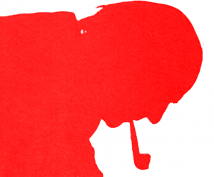 Harry Bertoia